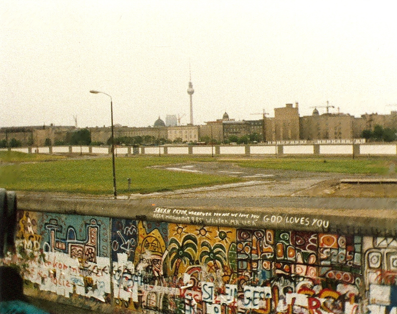 A view of the site of Potsdamer Platz at the Wall, Berlin